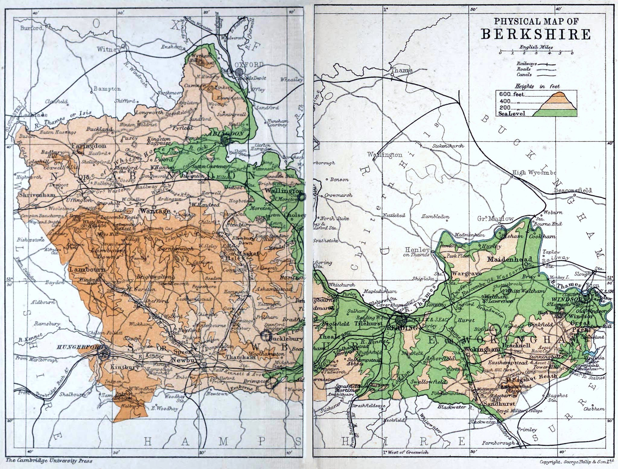 From a book called Berkshire, by H. W. Monckton, published by Cambridge University Press, 1911. Map is credited to George Philip & Son, Ltd.